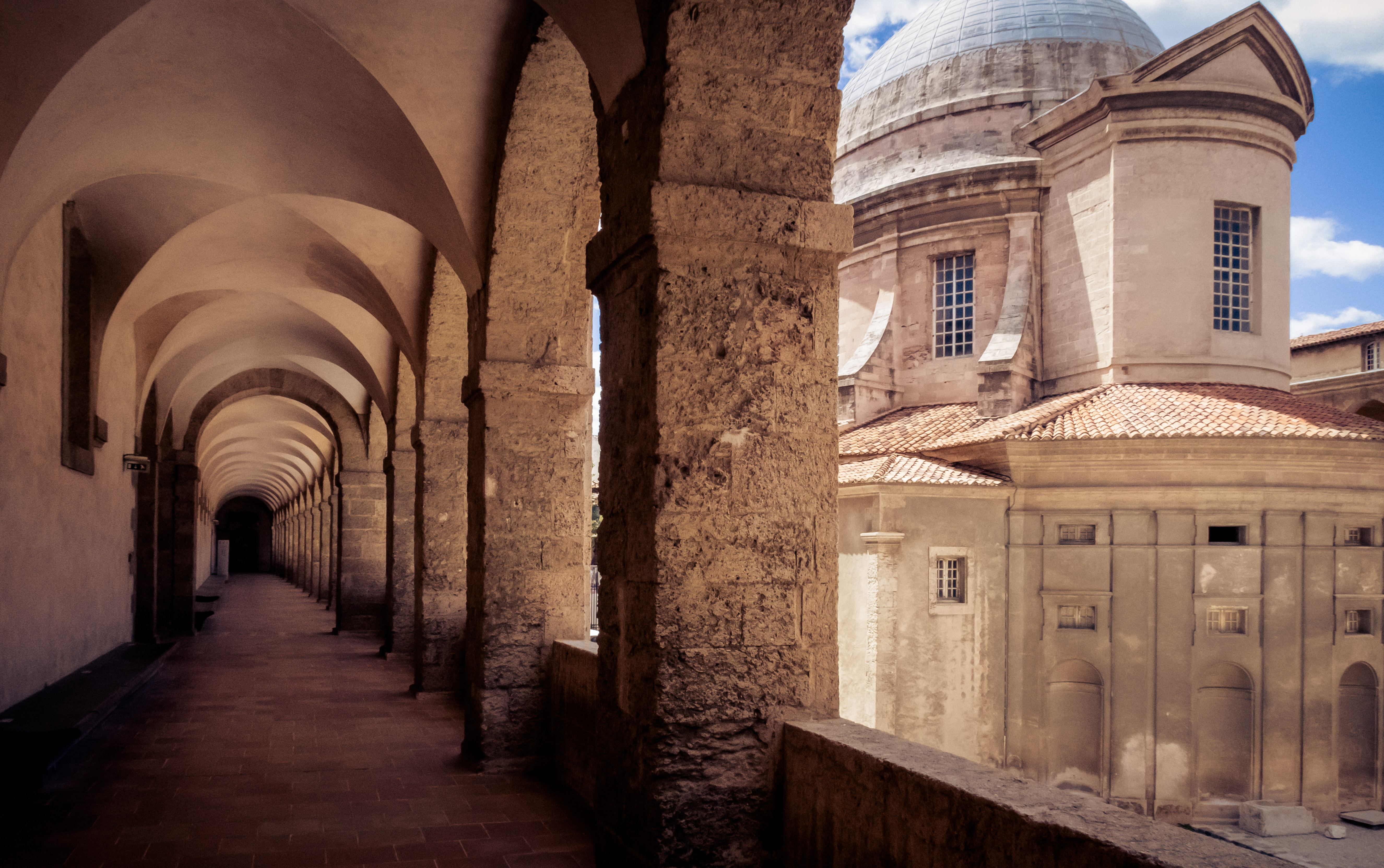 La Vieille Charité, Marseille, France